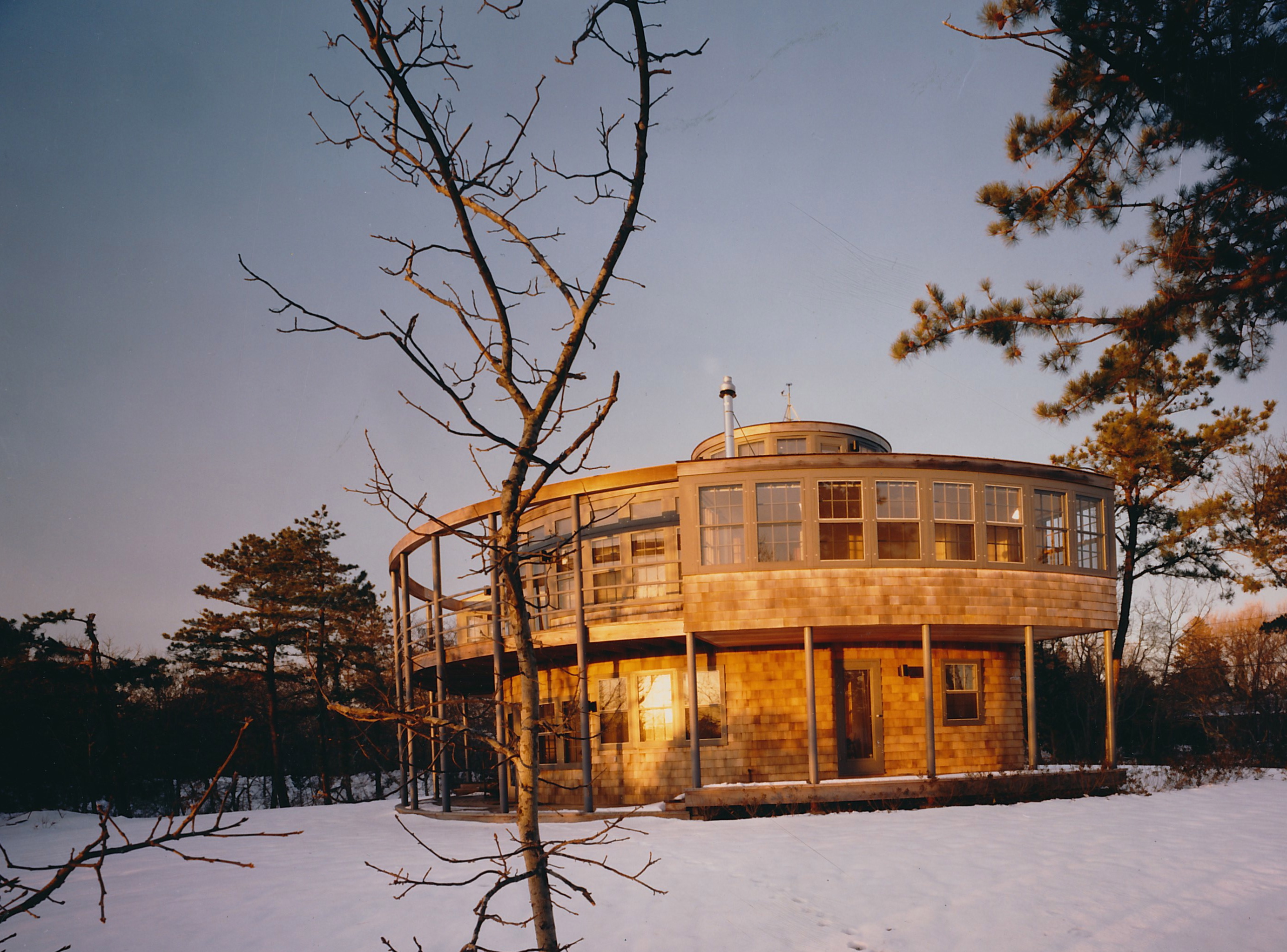 Photograph of house designed by Susana Torre. Susana Torre